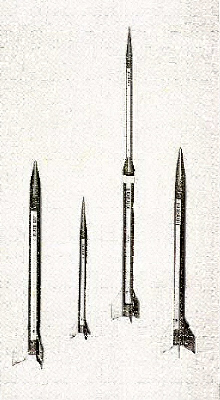 The Black Brant IV rocket (center), Black Brant III (left) and Black Brant V (both far sides).